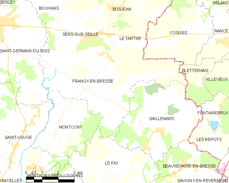 Map of French municipality